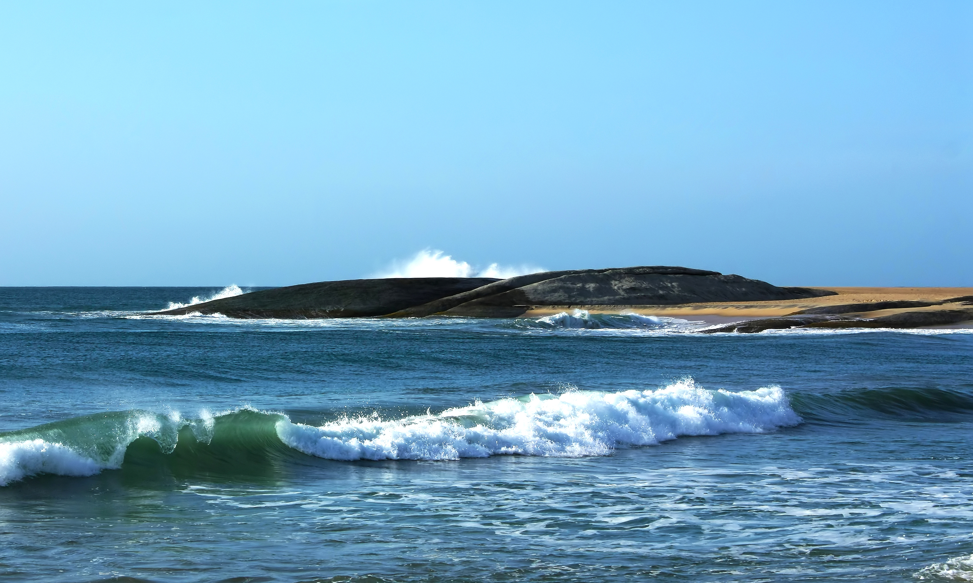 This is a golden boat of folklore. Folklore says Murugan landed on the shore of Okanda with Valli Amma in a golden boat, and the boat turned into a rock known as the "Ran Oru Gala". The rock still visible on the Okanda beach, Kumana National Park of Yala East.